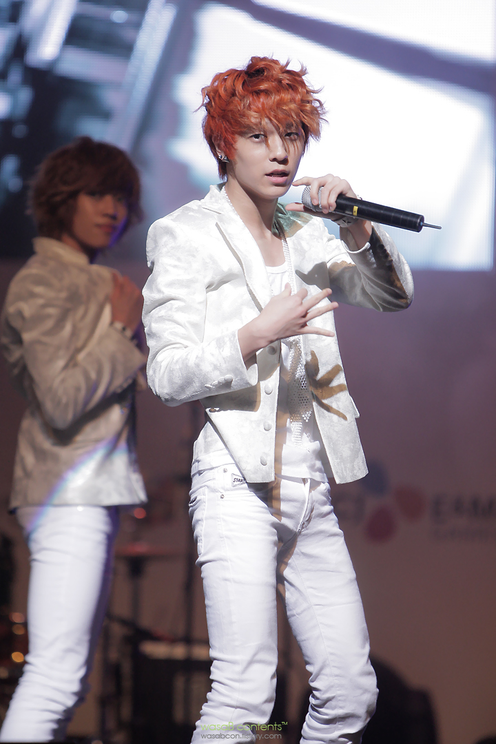 Teen Top kbs third radio special program